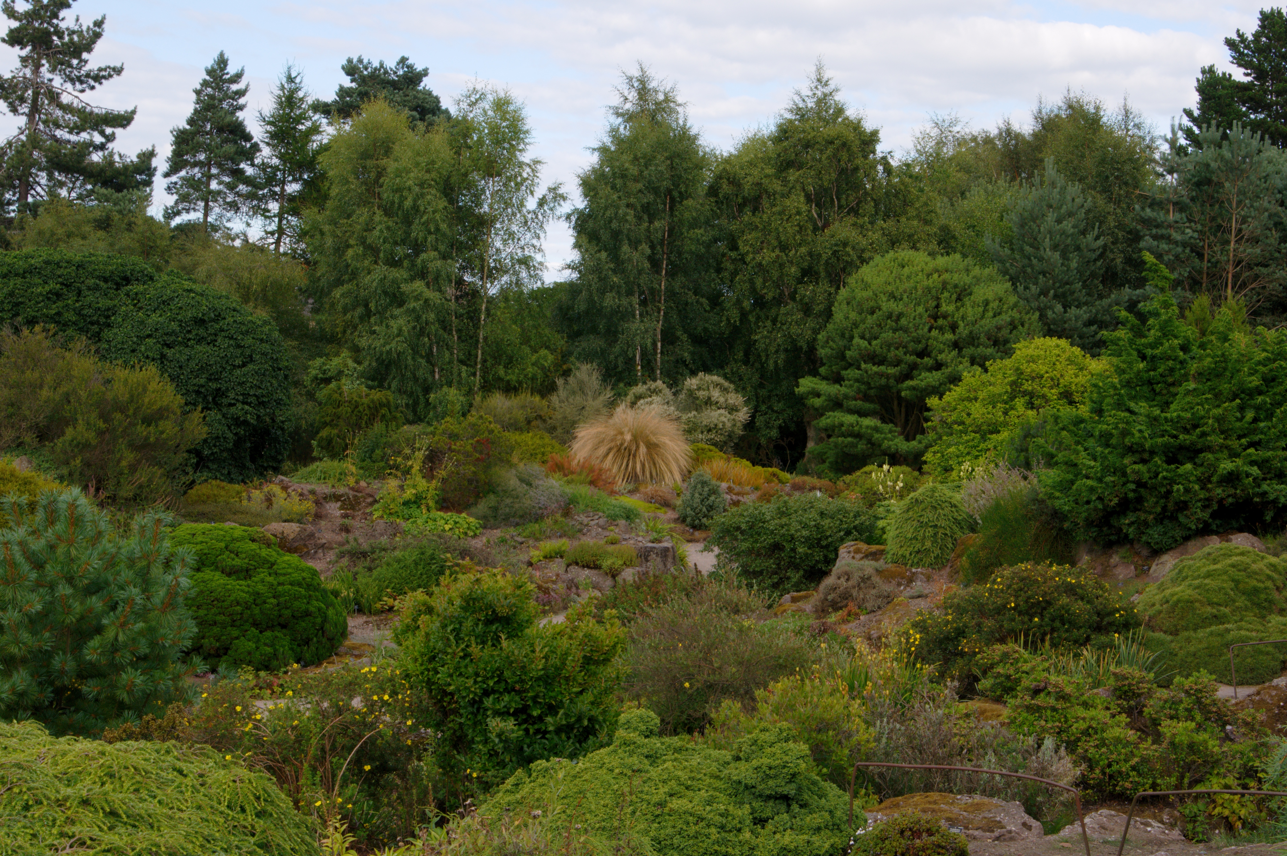 Royal Botanic Garden Edinburgh, view from the stone garden to the woodland garden